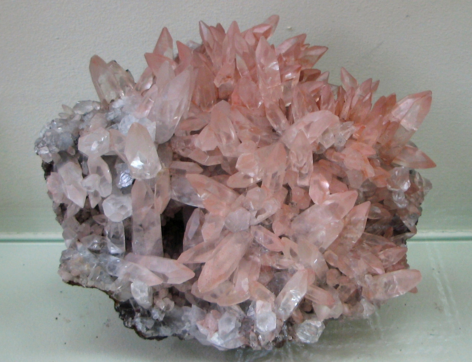 Calcite - Locality: Egremont, England - On display in the Mineralogical Museum, Bonn, Germany